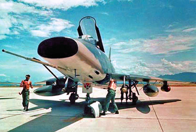 Ground crew prepares an F-100C of Colorado’s 120th Tactical Fighter Squadron for combat mission at Phan Rang Air Base, South Vietnam.